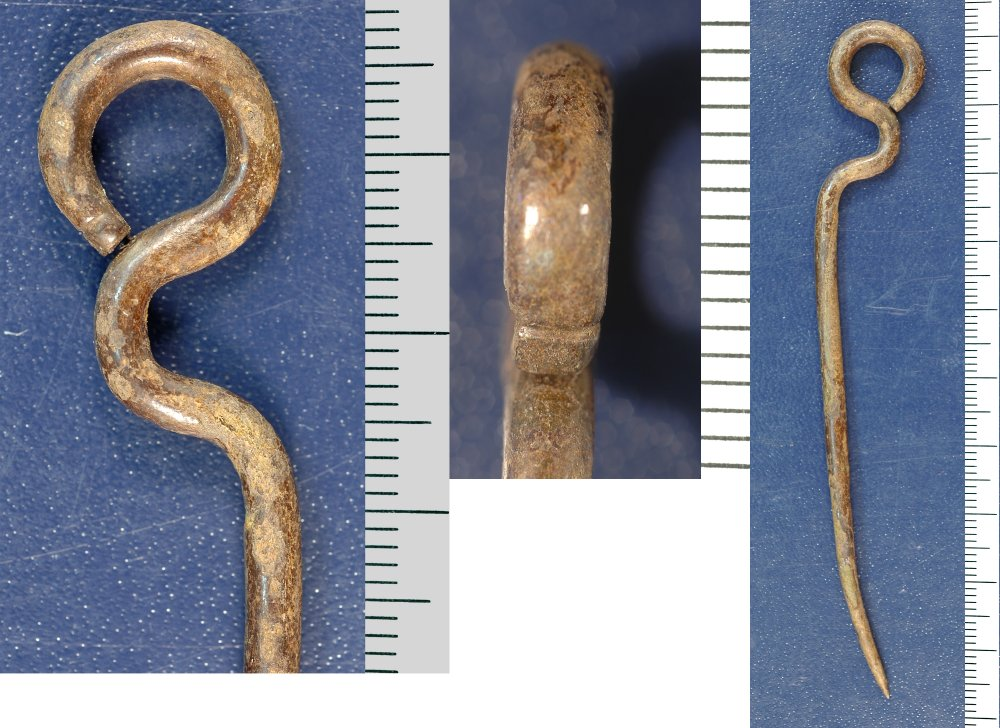 Copper alloy pin of ring-headed type, dating from the end of the Bronze Age to Middle Iron Age, c. 750 – 100BC. The pin is complete, but has distorted slightly near the tip and has an overall length of 99.2mm. The pin is of circular section with a diameter of between 3 and 4mm. The head forms a circular ring with an external diameter of 14.2mm (8mm internal). The ring is slightly open with a gap of c.0.5mm between the end of the ring and the neck. The neck forms the characteristic U-bend, before the near right-angle to the pin shaft (86mm in length). The diameter of the shaft is constant until c. 35mm from the tip, where the pin thins to the point. The only decoration evident on the pin is a single incised line on the front and sides of the head, 2mm from the end of the loop. The pin weighs 7.3g and is in good condition with much of the surface preserved and a mid-brown patina. This find represents the twelfth recorded find of ring-headed and swan’s-neck pins in South East Wales (comprising the old counties of Glamorgan & Gwent) (Gwilt in press), including the five recent examples excavated at Llanmaes, Vale of Glamorgan. Ring-headed pins of this form without a solid ring commonly carry simple decoration with notches on the front of the ring (Dunning 1934, pp274). The simple decoration on this form of pin can be paralleled with an example from Meare in Somerset (ibid. fig 3) and from Margan foreshore in Wales (Wear, unpublished) where an example has further notches along the neck and head. Few ring-headed pins have been recovered from a securely dated context, but the simple form and decoration on this example may suggest a date within the first half of the date range suggested above.